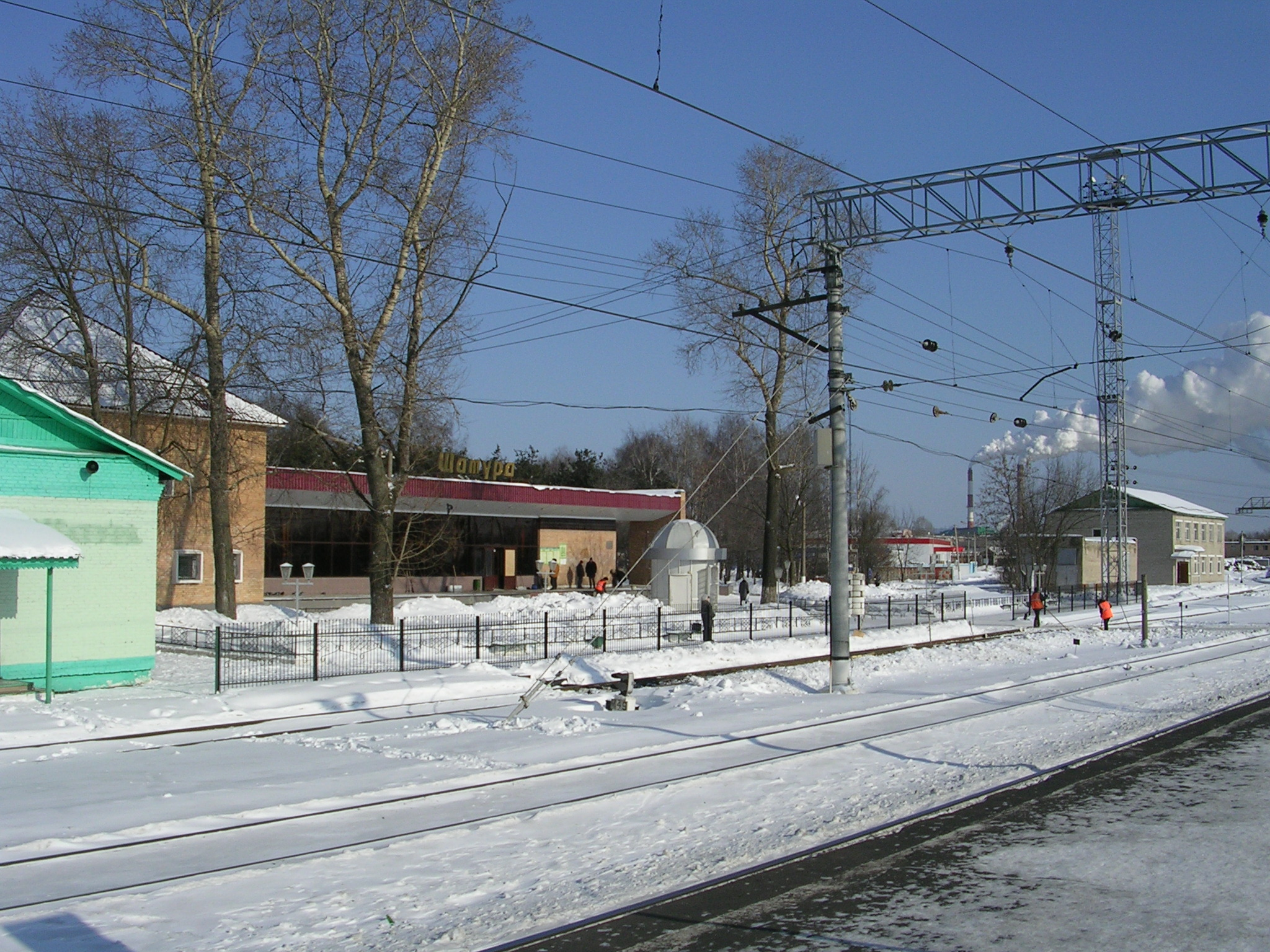 Railway Station of Shatura, Moscow Oblast, Russia